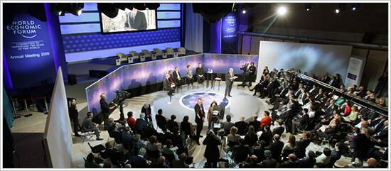 DAVOS-KLOSTERS/SWITZERLAND, 30JAN09 - Overview of the session 'Lessons from the Financial Crisis - Time for a New Rule Book?' at the Annual Meeting 2009 of the World Economic Forum in Davos, Switzerland, January 30, 2009.